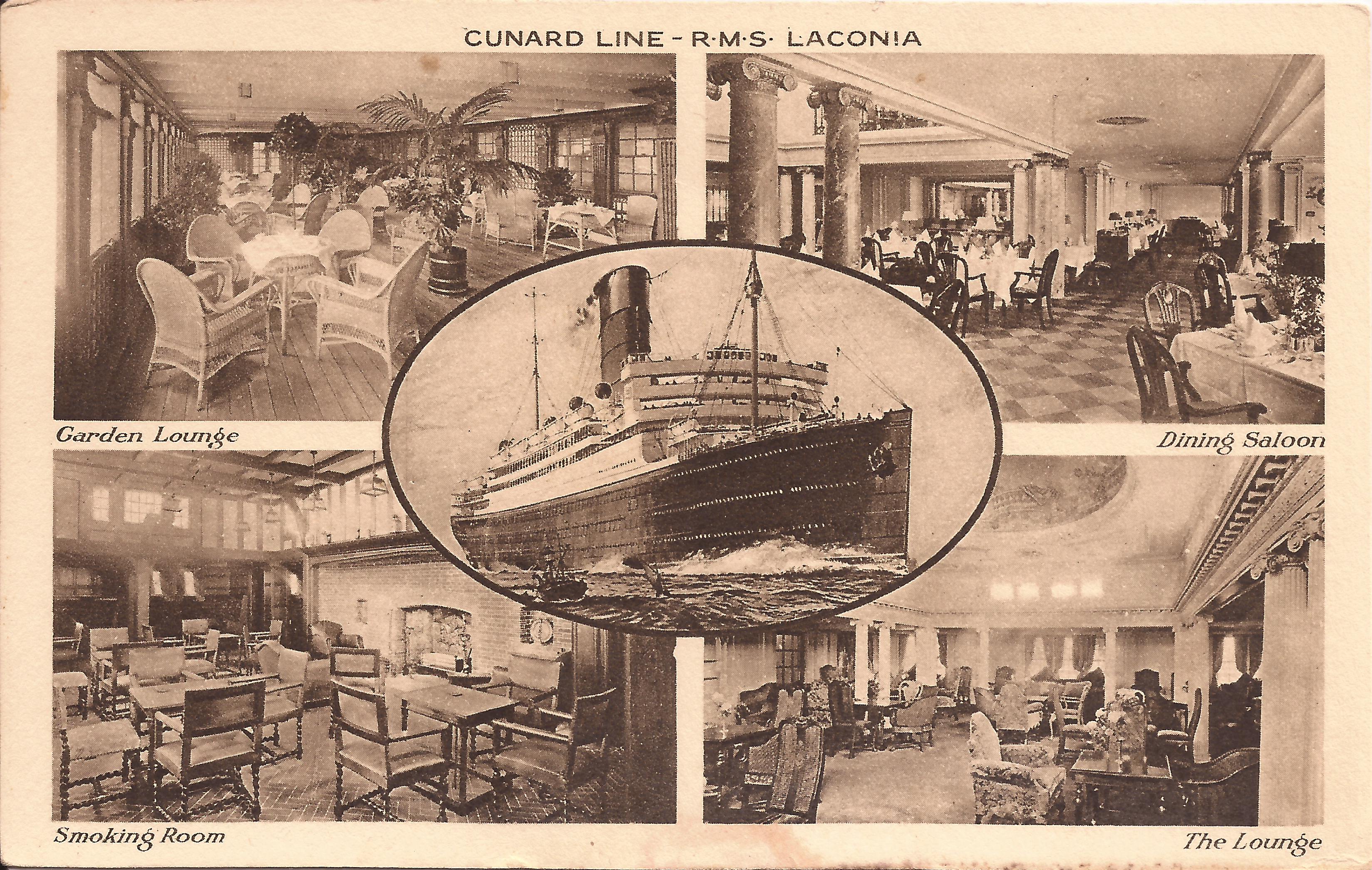 Postcard of the Cunard Line RMS "Laconia", detailing the Garden Lounge, Dining Saloon, Smoking Room, and The Lounge